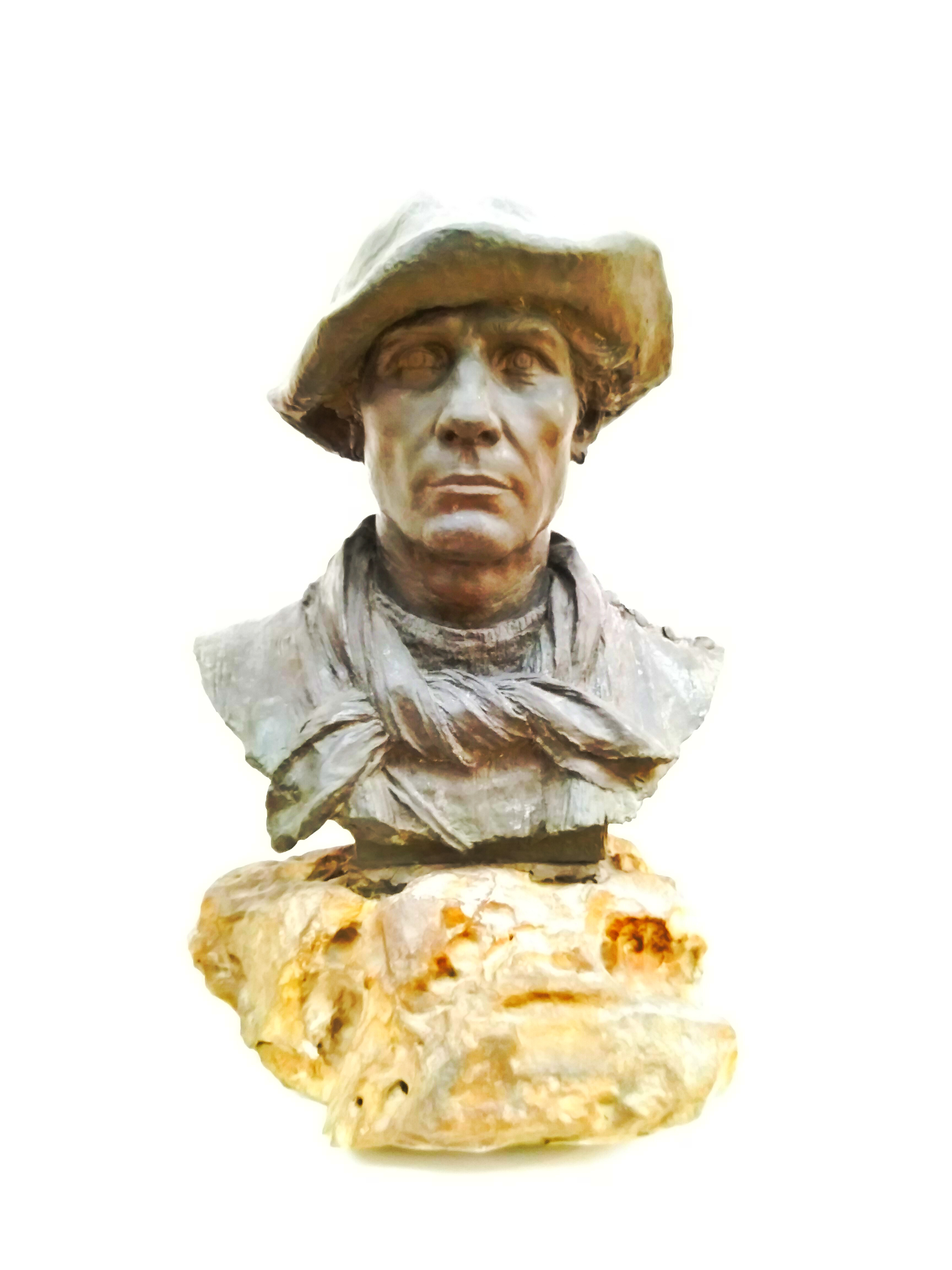 le pilleur d'épaves, sculpture made by Agathon Léonard